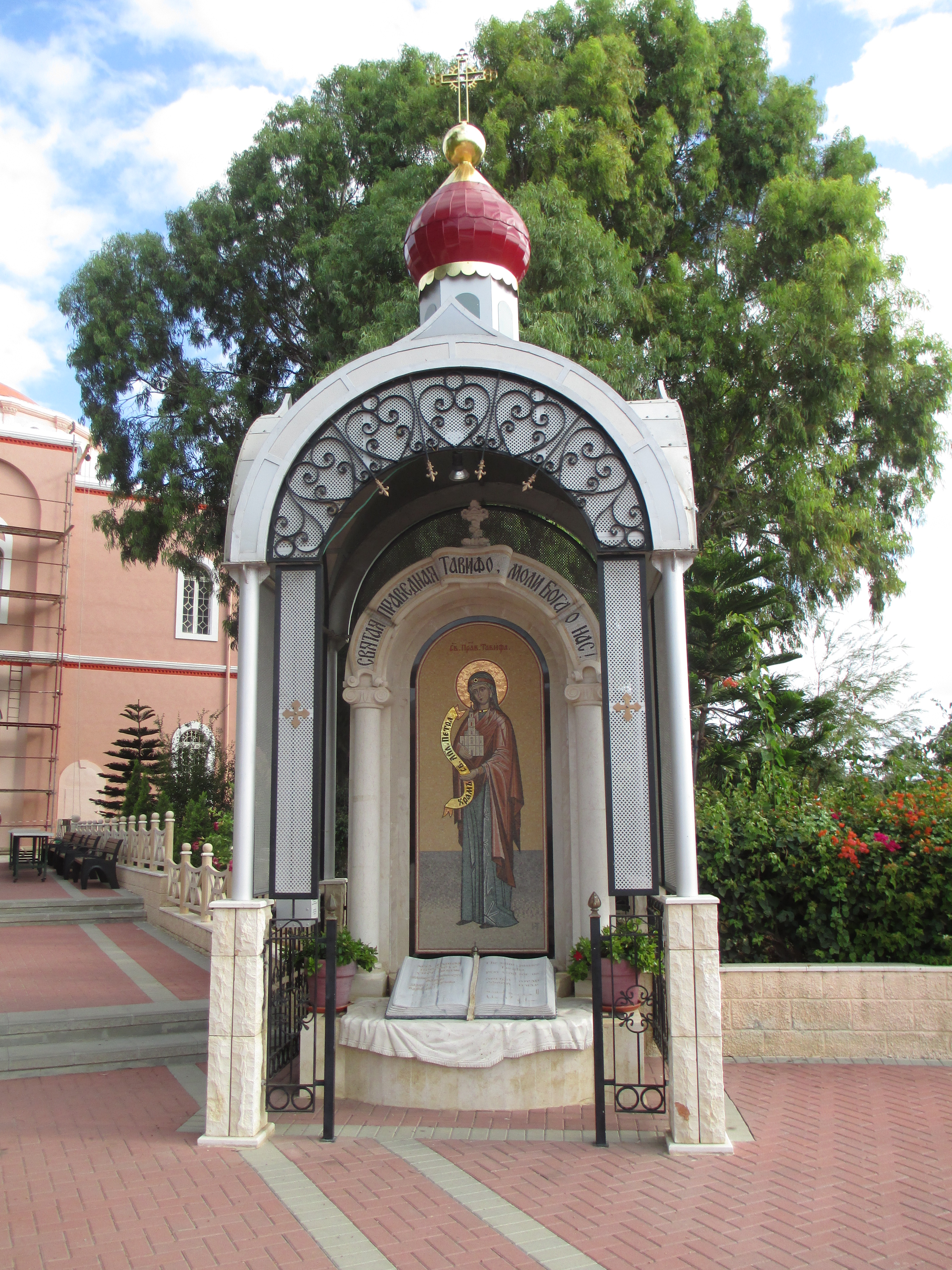 Russian (St. Petrus) church in Jaffa